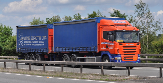 Scania 3 axle Rigid and 3 axle Drawbar Trailer on M42